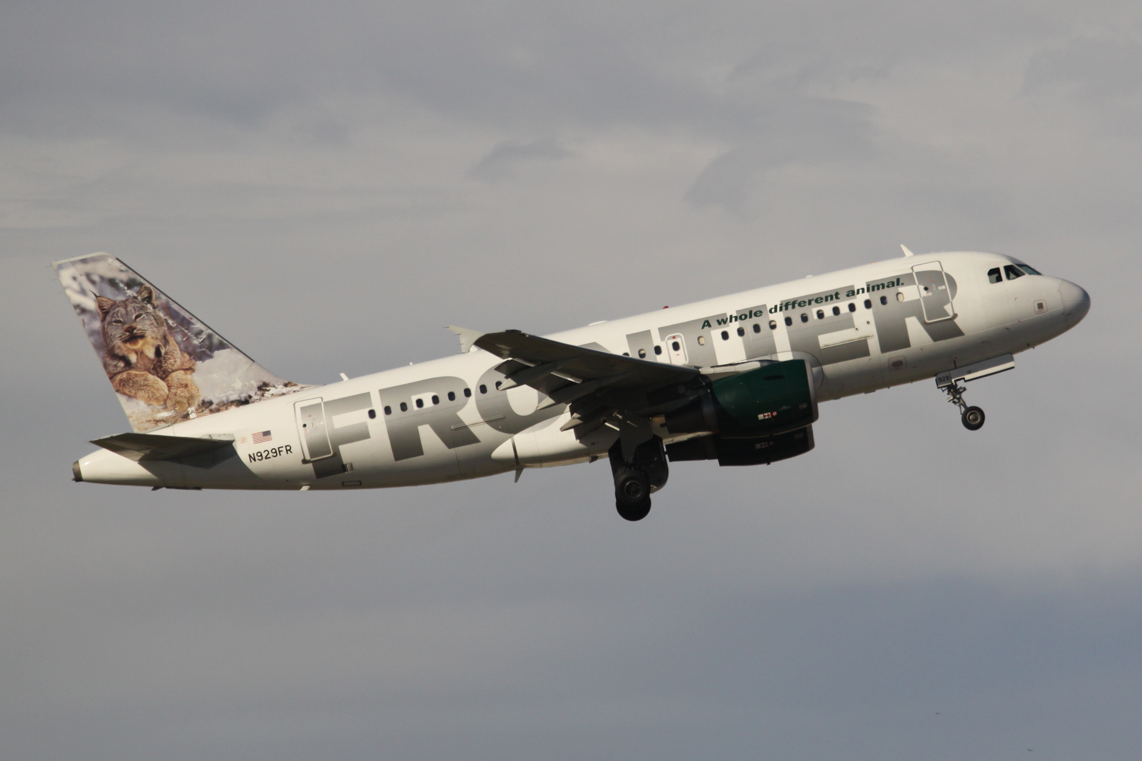 Frontier Airlines N929FR at FLL.